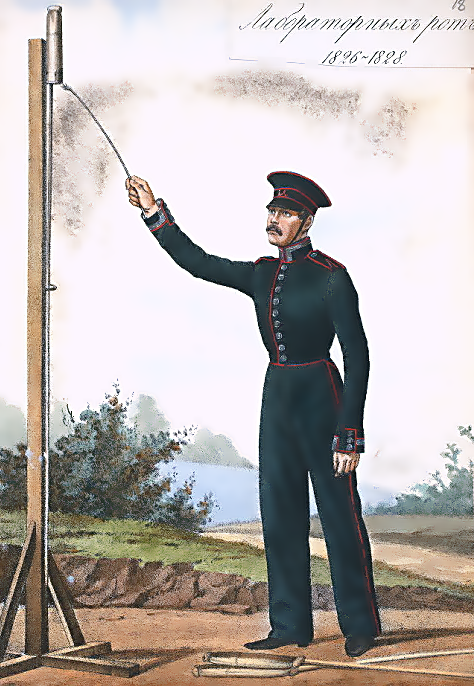 Russian soldier with Congreve rocket in 1826-1828.